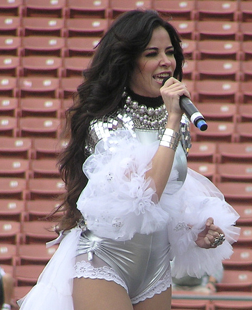 Mexican pop singer Gloria Trevi performing